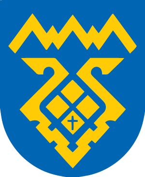 Togliatti (Samara oblast), small coat of arms